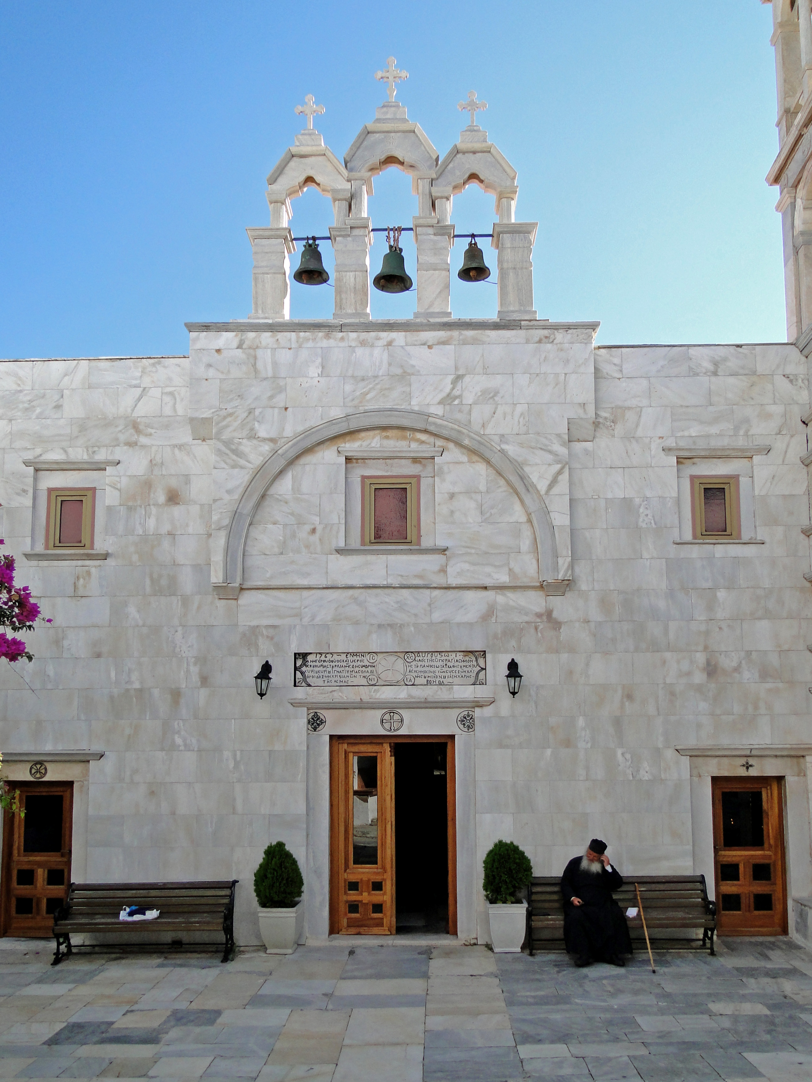 Church of the Monastery of Panagia Tourliani, Ano Mera, Mykonos, Greece